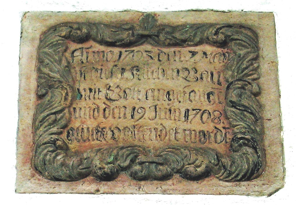 Cämmerswalde - Kirche Tafel mit dem Nachweis des Umbaus